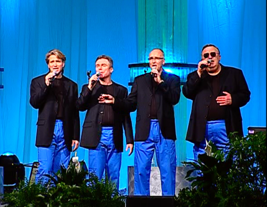 Richard Leyh, Spasm Records archive